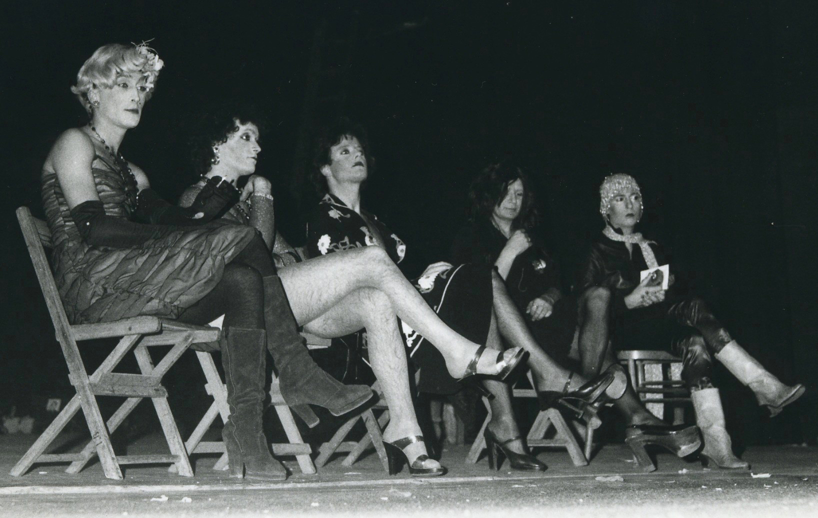 An image from the drag show Pissi pissi bao bao from the Italian gay theatre company Collettivo Teatrale Trousses, Merletti, Cappuccini e Cappelliere (CTTMCC), during the first Festival of gay music, cinema and theatre, Parma, December 1977